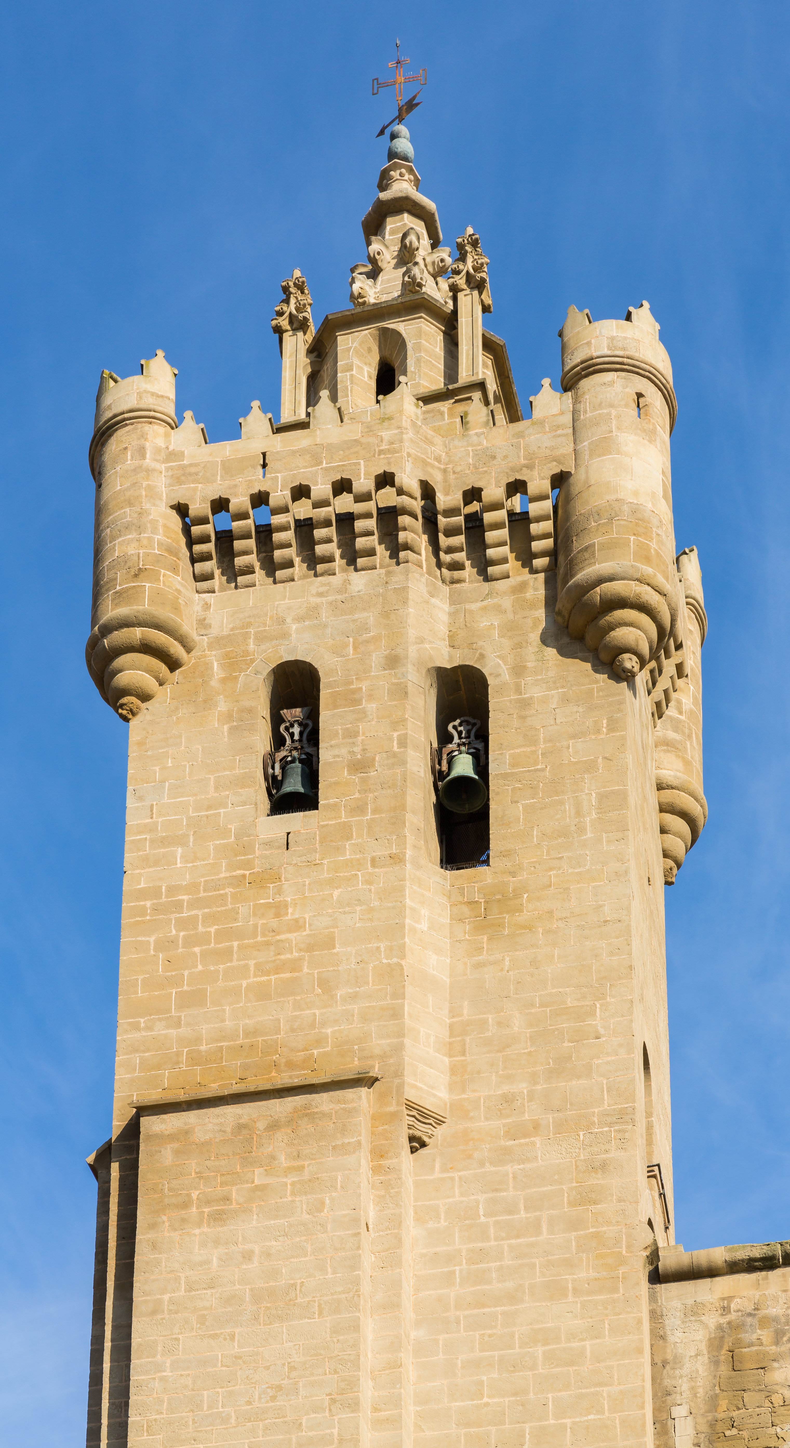 Church of San Salvador, Ejea de los Caballeros, Zaragoza, Spain